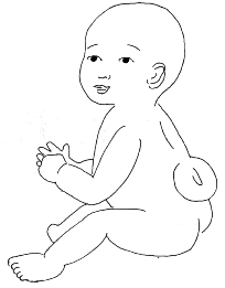 Schematic drawing of a baby with spina bifida.